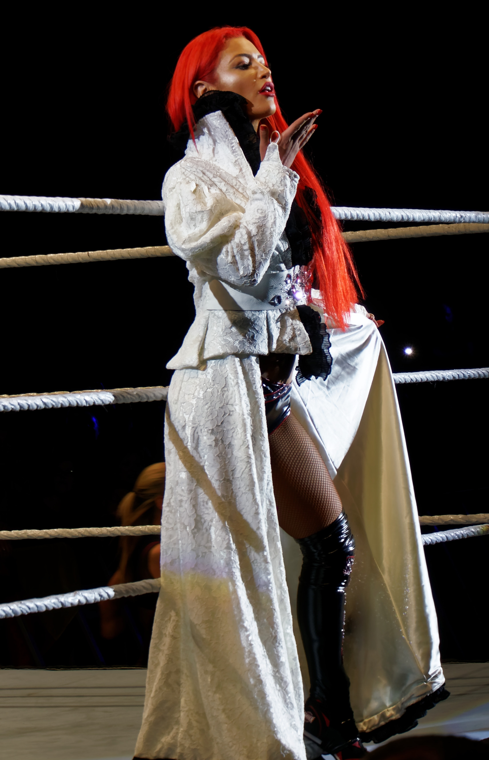 Eva Marie in April 2016